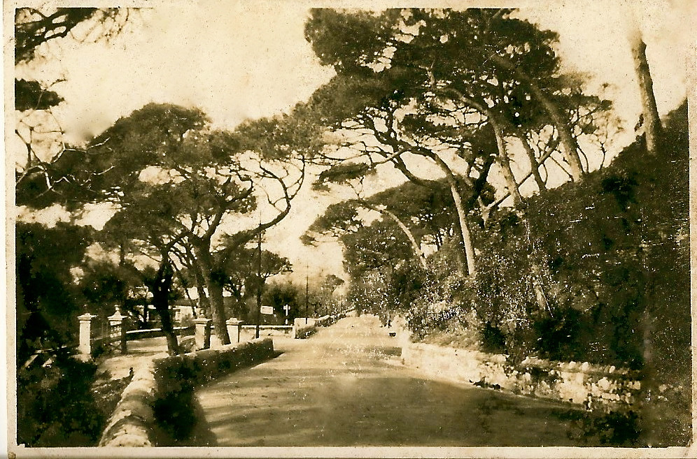 A picture of the Europa Road in Gibraltar.